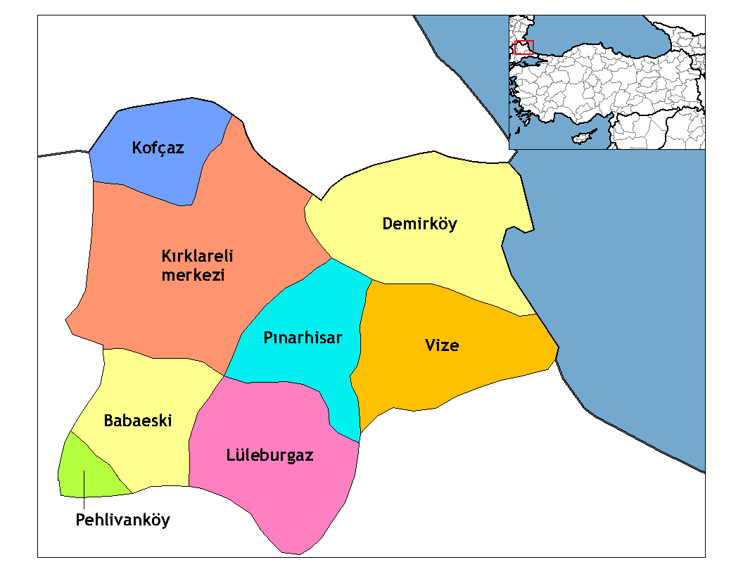 Map of the districts of Kirklareli province in Turkey. Created by Rarelibra 22:00, 1 December 2006 (UTC) for public domain use, using MapInfo Professional v8.5 and various mapping resources. Edited by One Homo Sapiens Corrected text where İ,Ş,ı,ğ,or ş occurs in name. Source: [statoids-com]. Increased font size and enhanced color differences among adjacent districts.